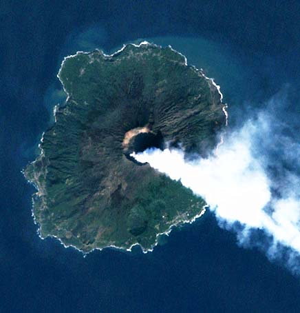 Landsat picture of Miyakejima Island, Izu Islands, Japan.